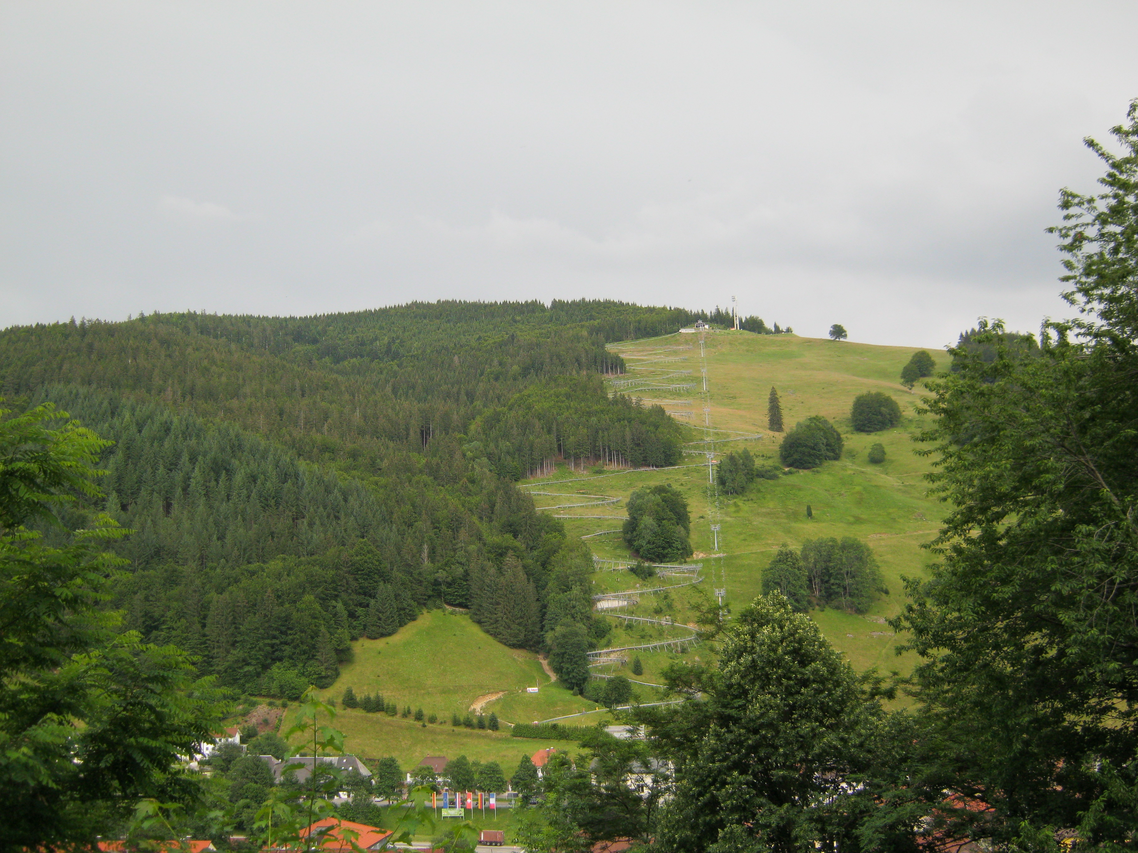 The "Hasenhorn" is a mountain in the Black Forest in Germany, Baden-Württemberg. You can go by chairlift to the top. Here you can eat and drink something and drive with the dry toboggan run called Hasenhorn Coaster. The mountain lies beside the city Todtnau.